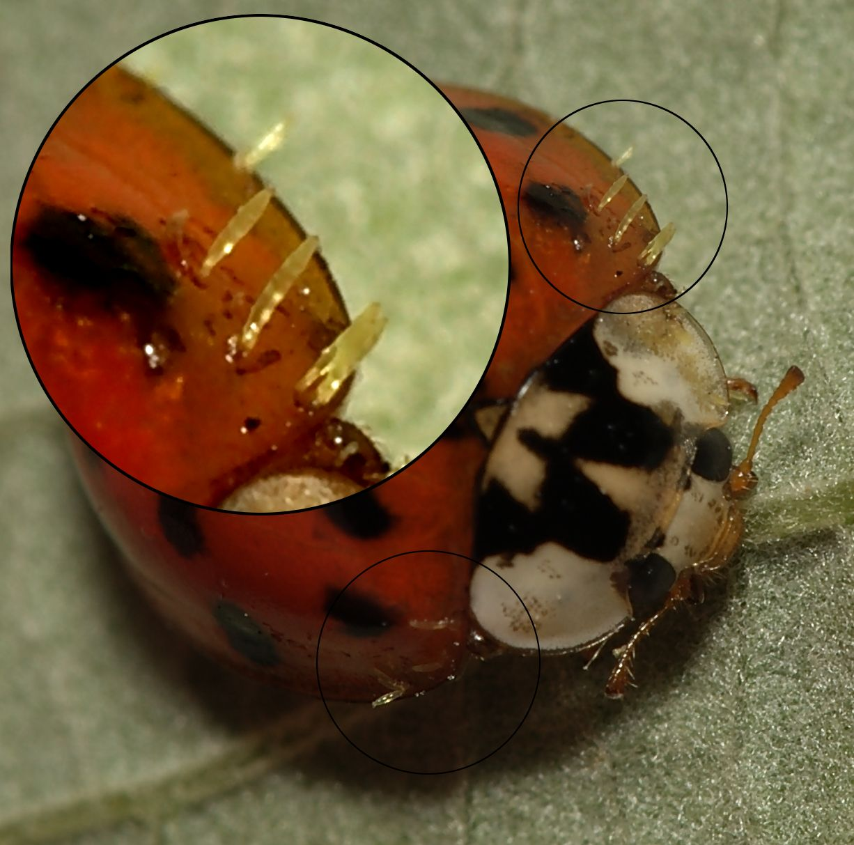 Harmonia axyridis, parasitized by Laboulbeniales (det. Harry S./insektenfotos.de); from Cologne, Germany.